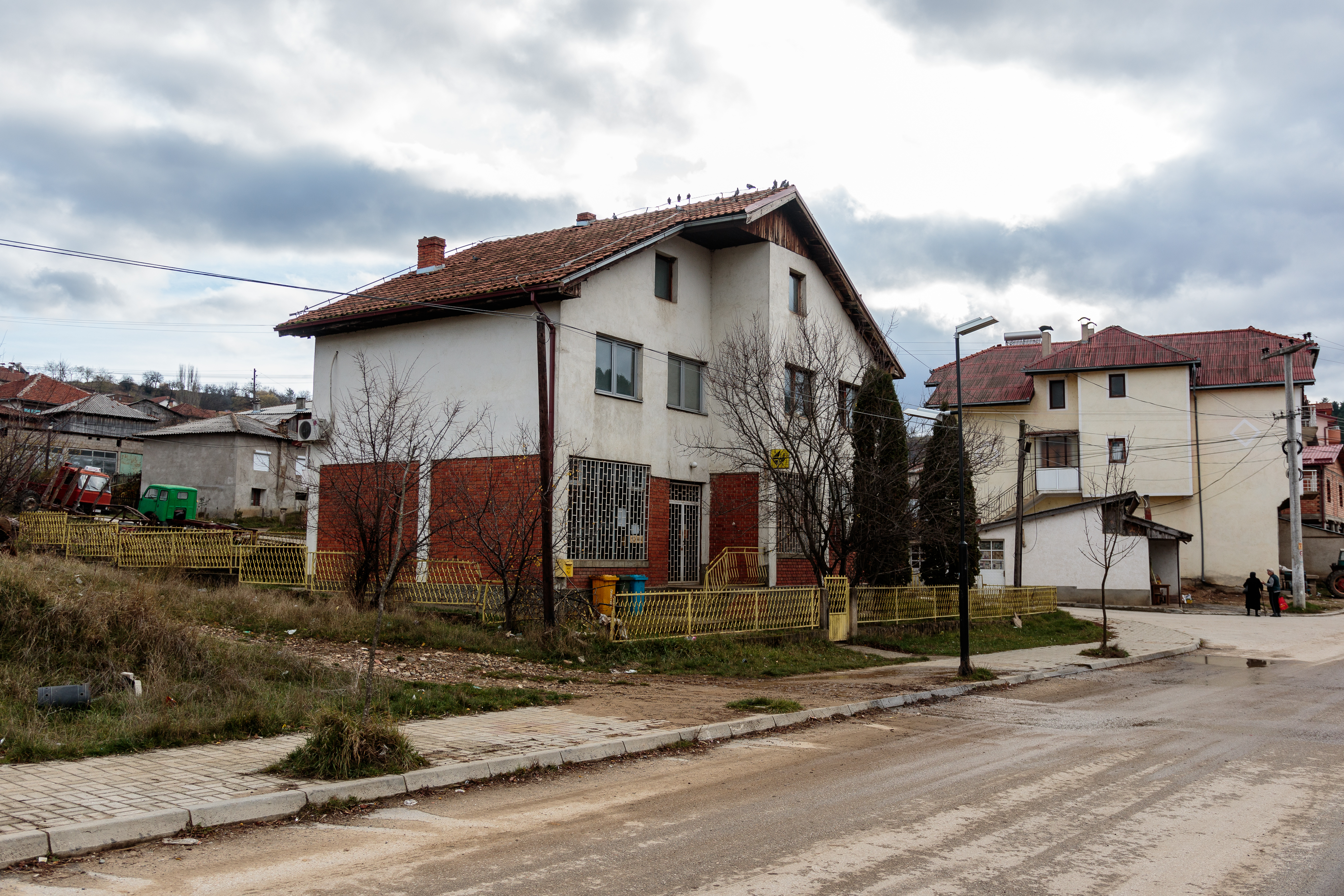 View of the post office in the village Rusinovo